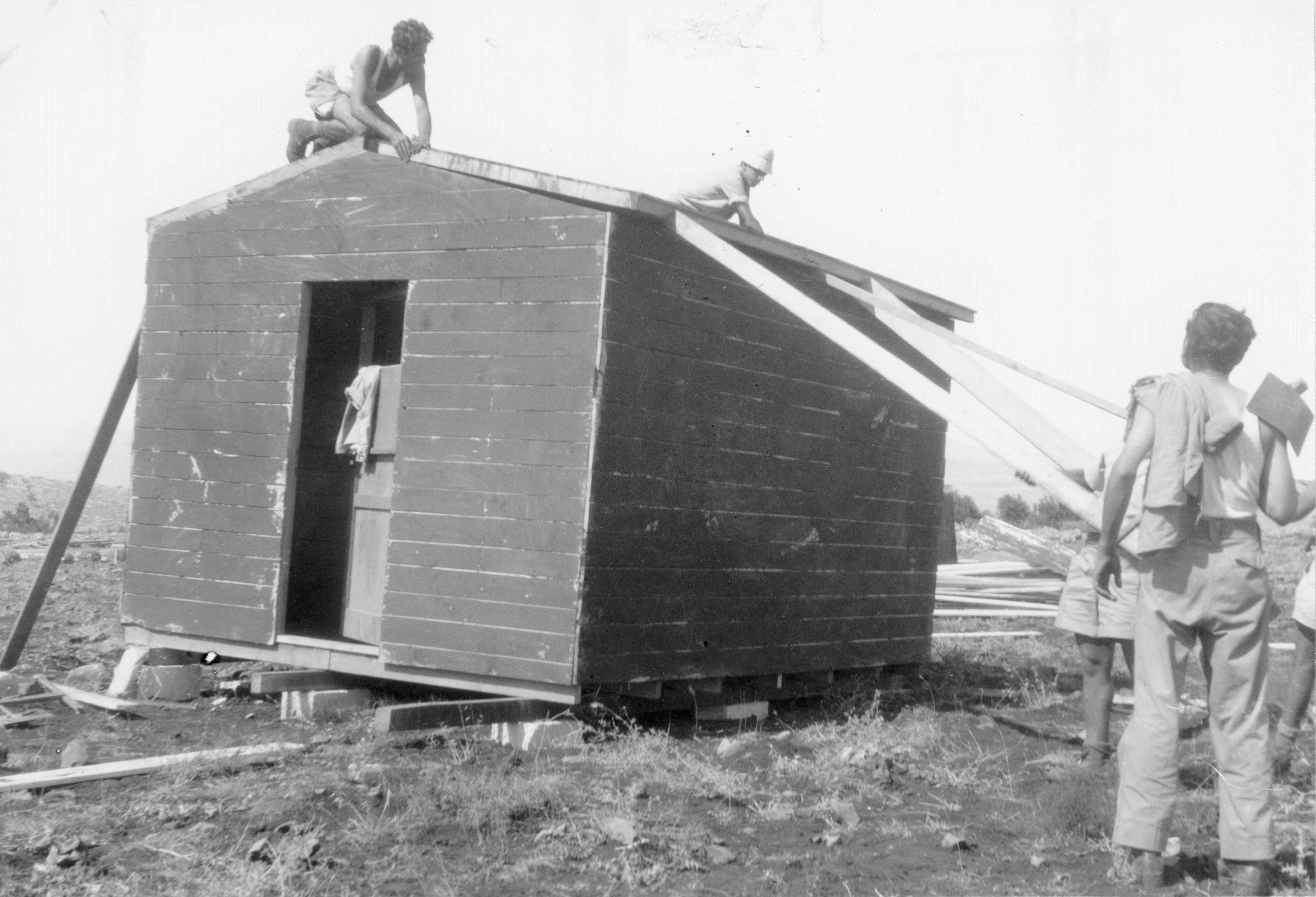 The Palmach, Settlements in Israel